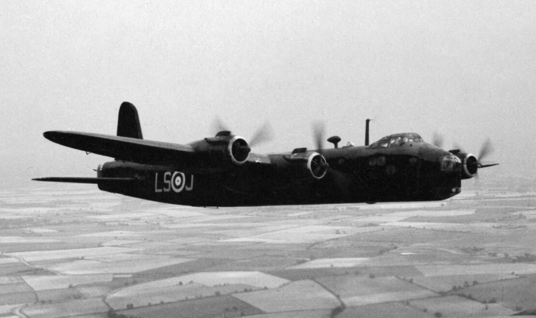 Royal Air Force Bomber Command, 1939-1941. Short Stirling Mark I, W7429 'LS-J', of No. 15 Squadron RAF based at Wyton, Huntingdonshire, photographed while in flight from another aircraft of the Squadron.